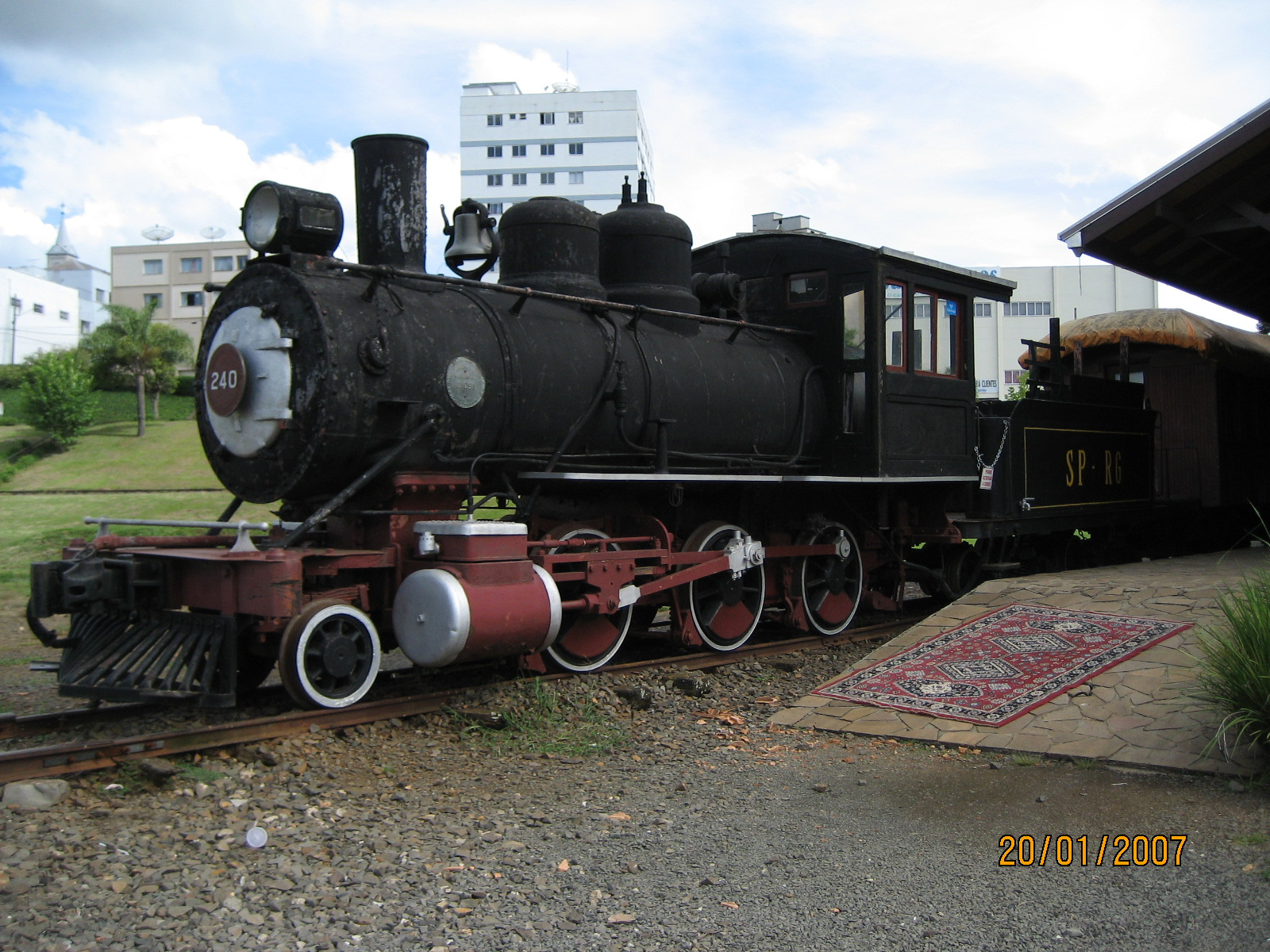 Train (SP-RG rail)- Caçador - SC - Brazil Author: Edson L. Pedrassani Source: own work 2007-01-20